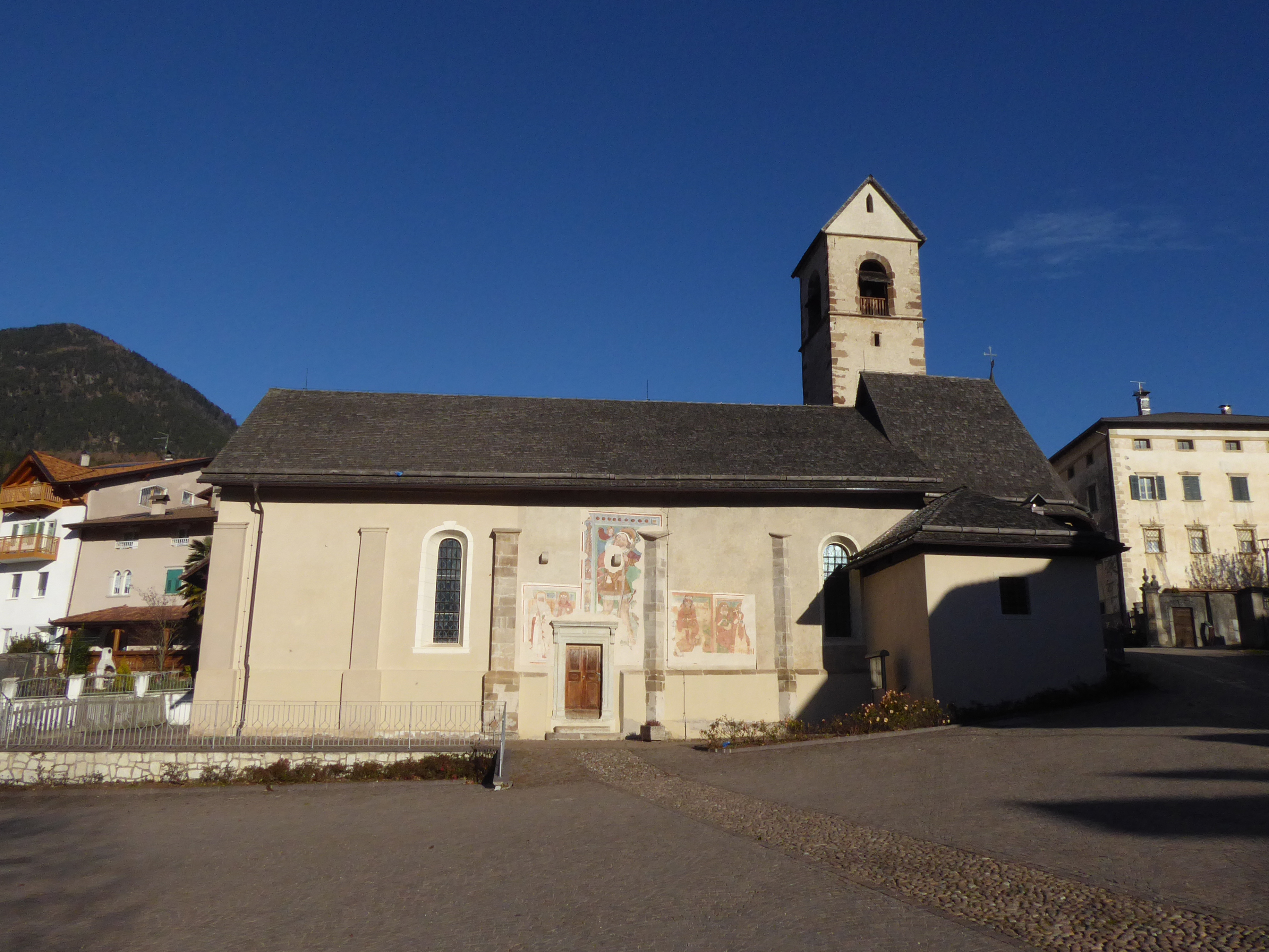 Livo (Trentino, Italy) - Saint Martin church